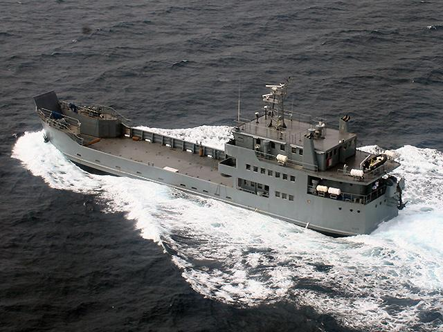 An aerial file photo of BRP Tagbanua (AT-296), a large landing craft utility of the Philippine Navy.